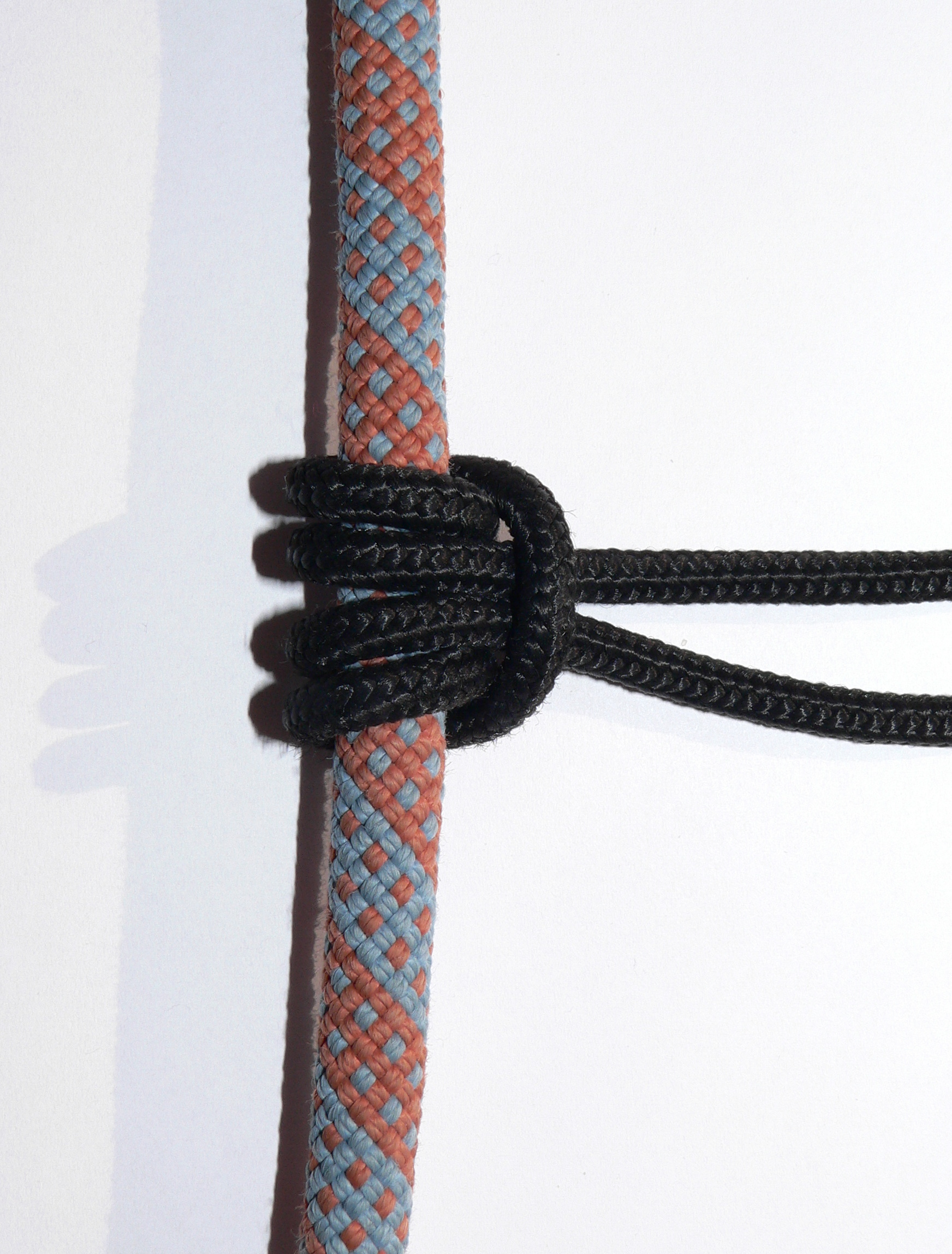 Prusik knot.